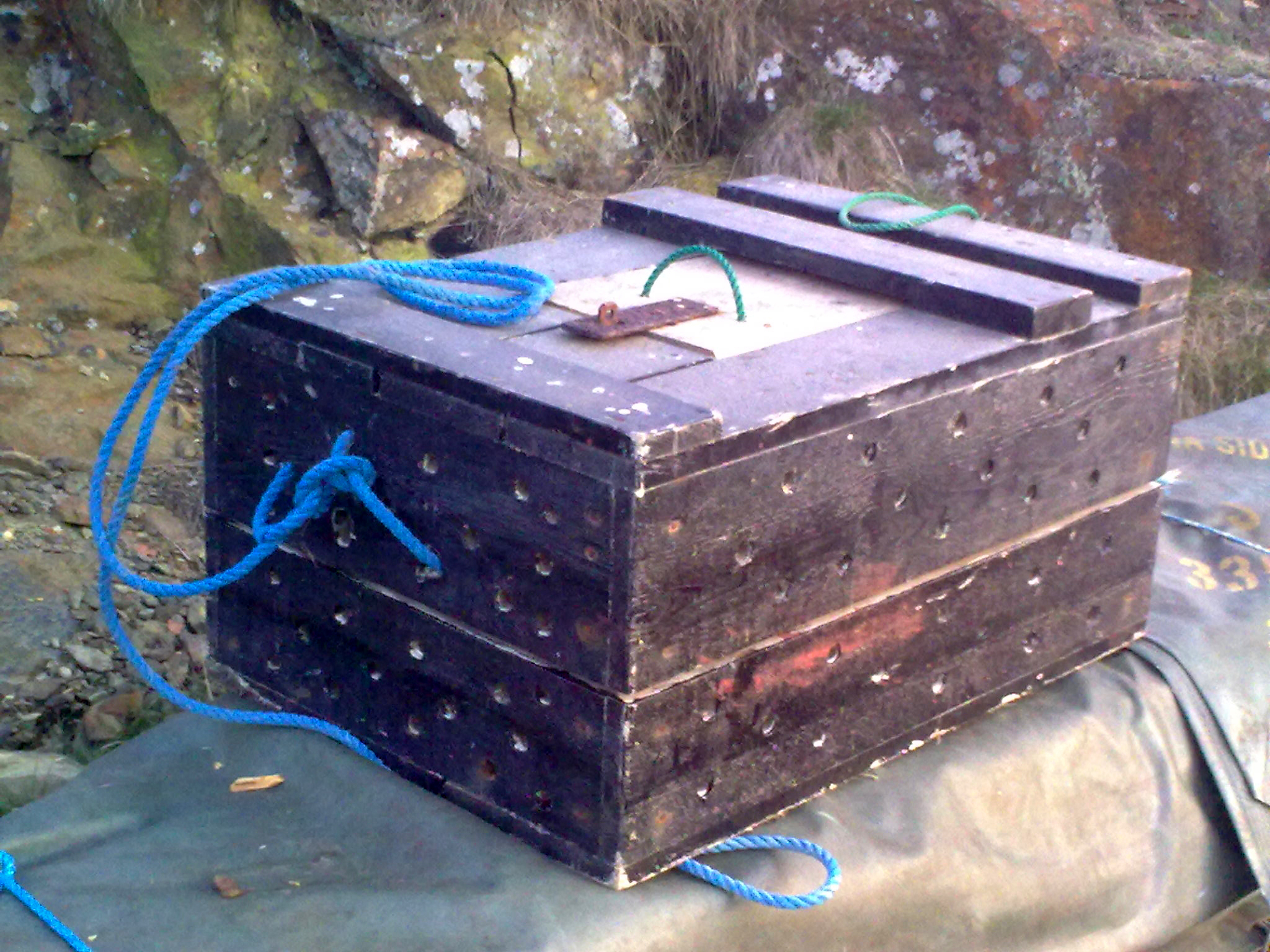 Wooden corf, from Sweden's West Coast